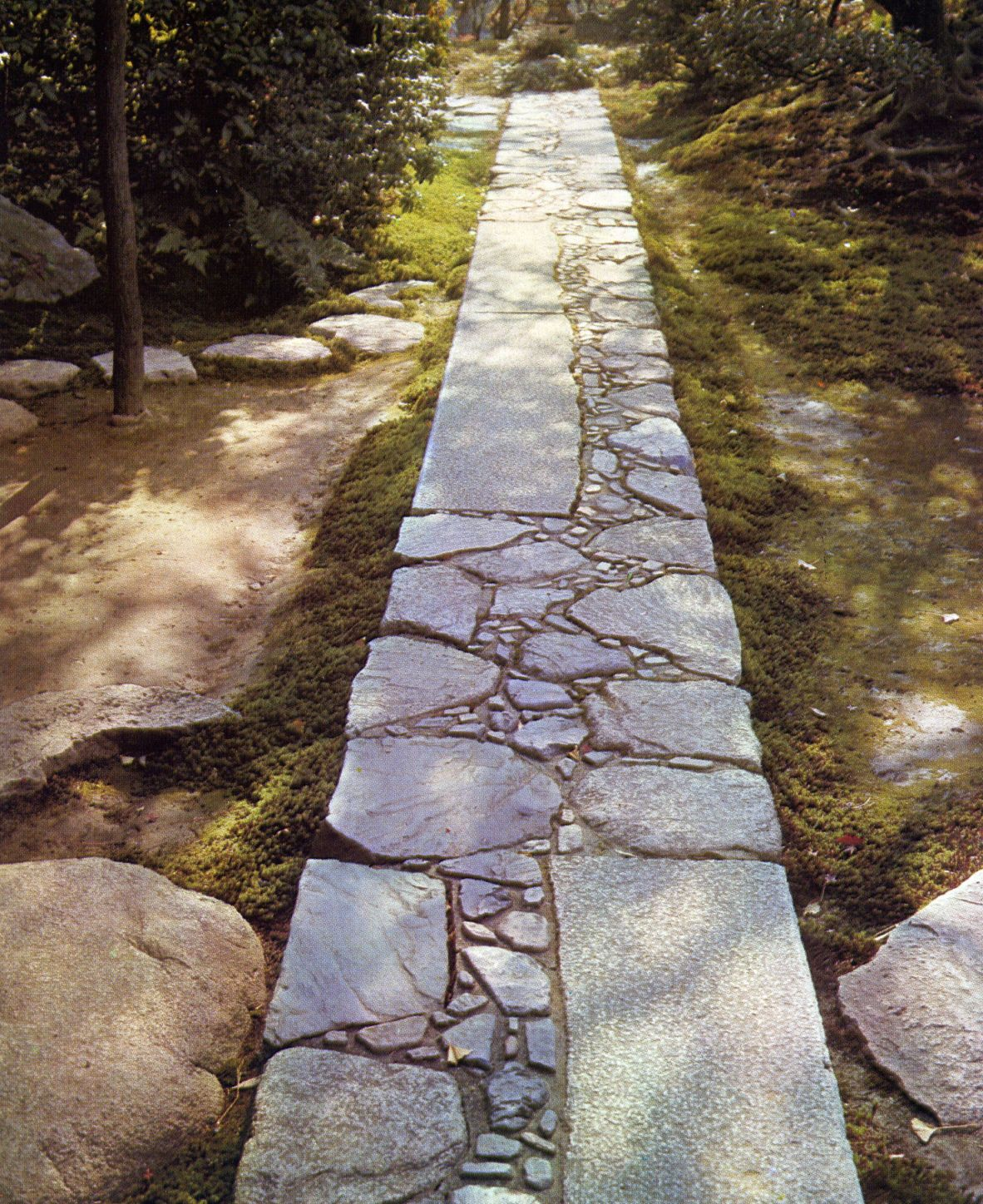 Katsura rikyu, Kyoto. Path: tatami-ishi